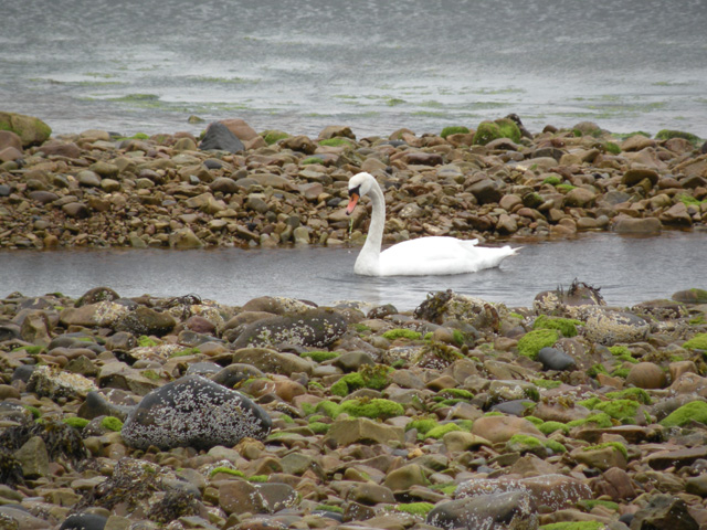 Mute swan in a narrow channel The shingle banks of this slender channel form a good textural contrast with the swan.